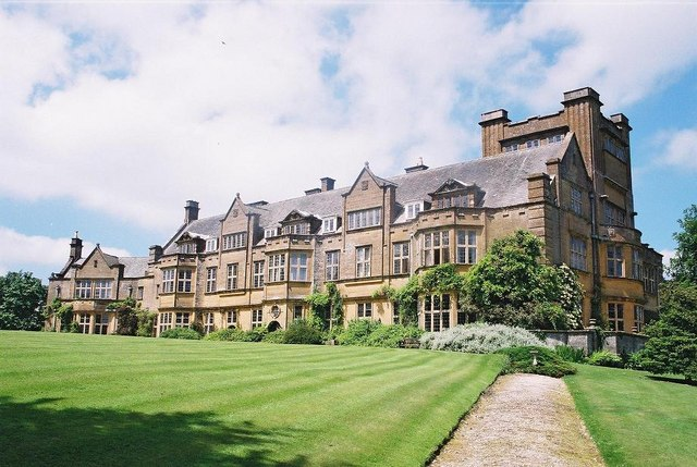 Minterne House: south front Minterne House was built in 1903-6 on Victorian foundations.